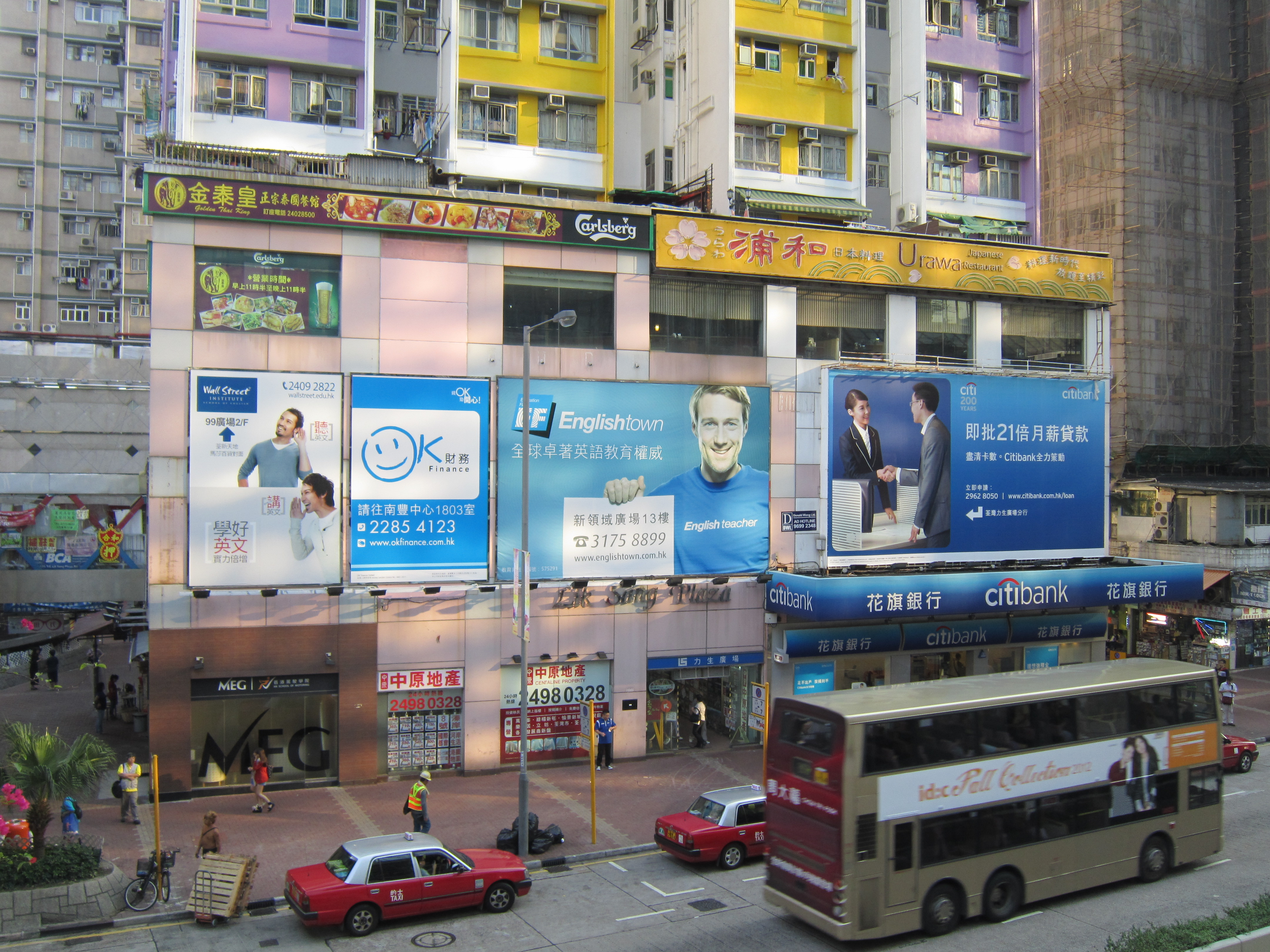 Lik Sang Plaza outlook